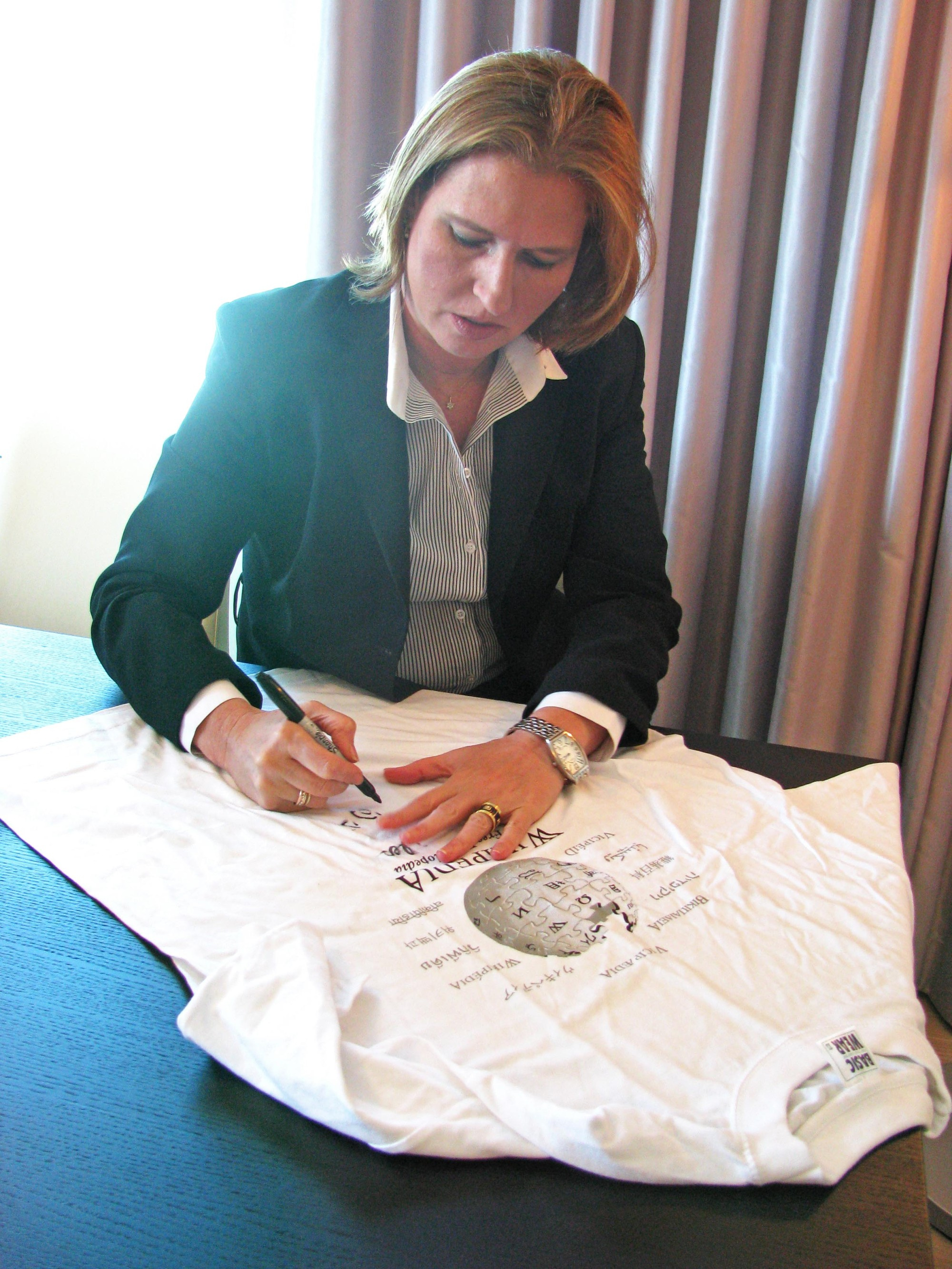 Tzipi Livni, Leader of Kadima Party (Israel) and Israel Opposition Leader, signing on the Free Travel-Shirt, Israel